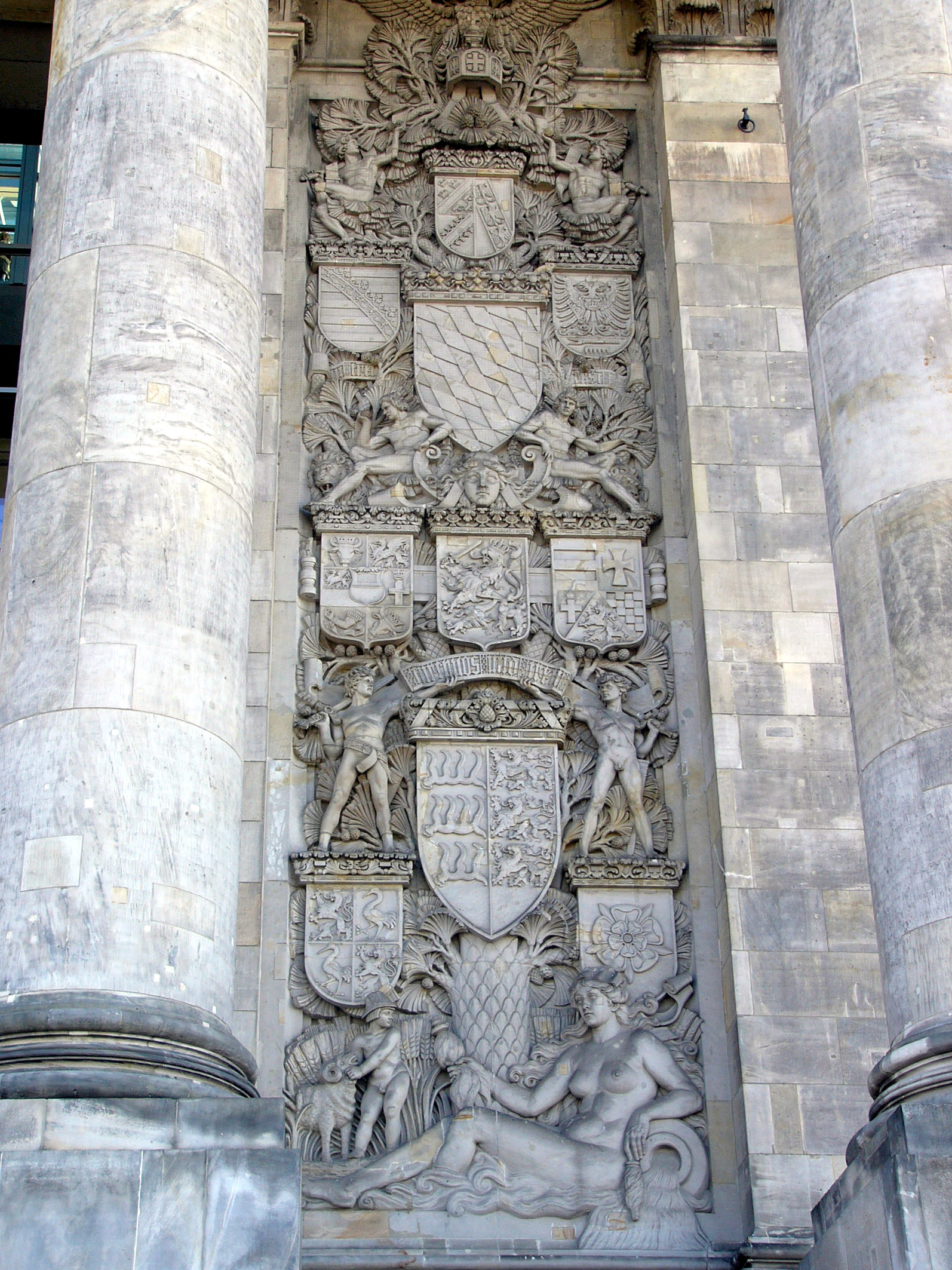 coats of arms on the left side of Entrance of the Reichstag, Berlin !! Relief - rechts !!